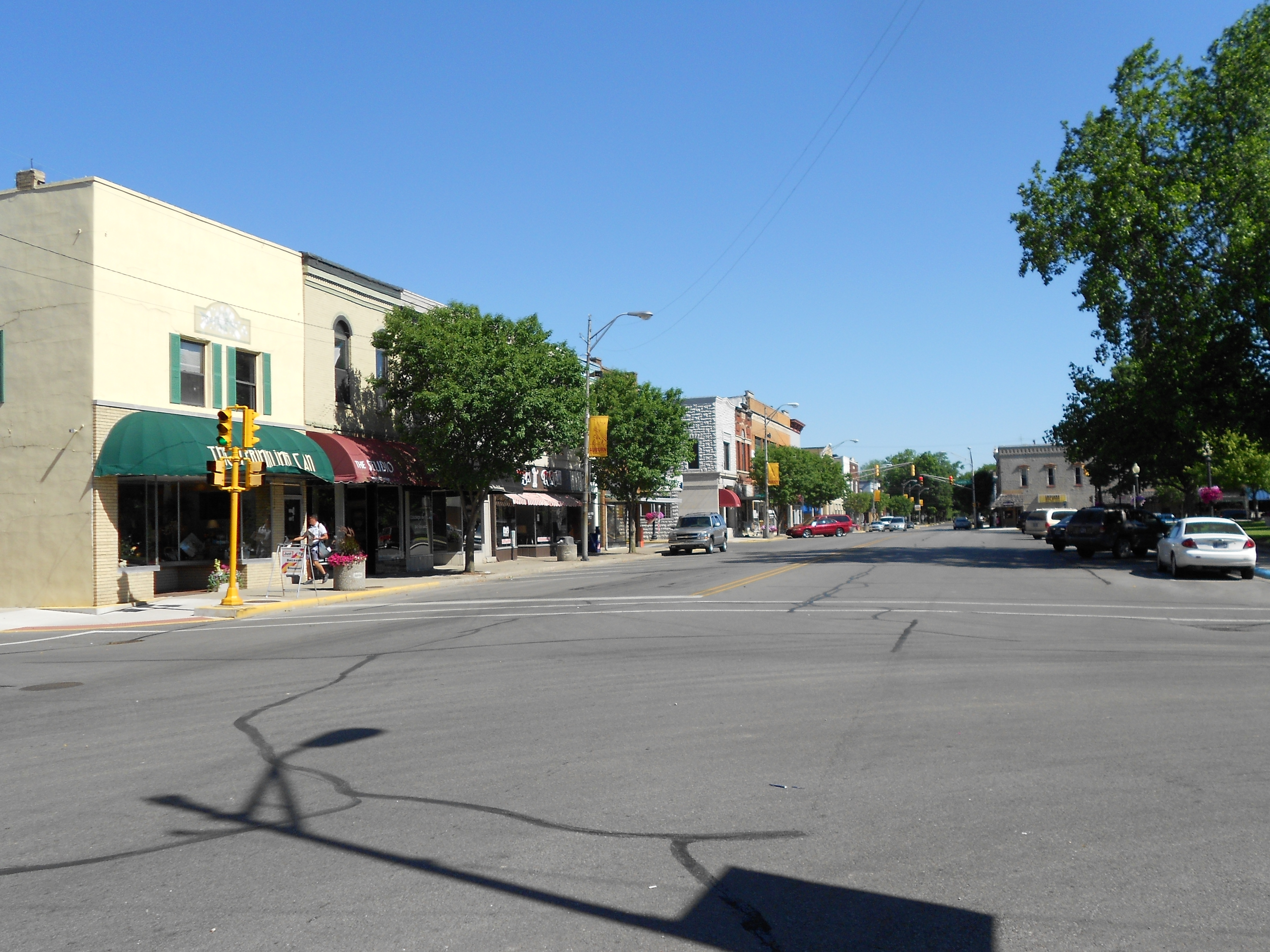 This is an image of South Main Street in downtownAuburn, Indiana, U.S.A., looking north.